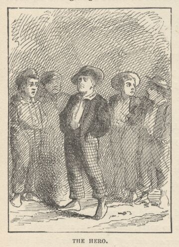 Illustrations de The Adventures of Tom Sawyer, 1876.